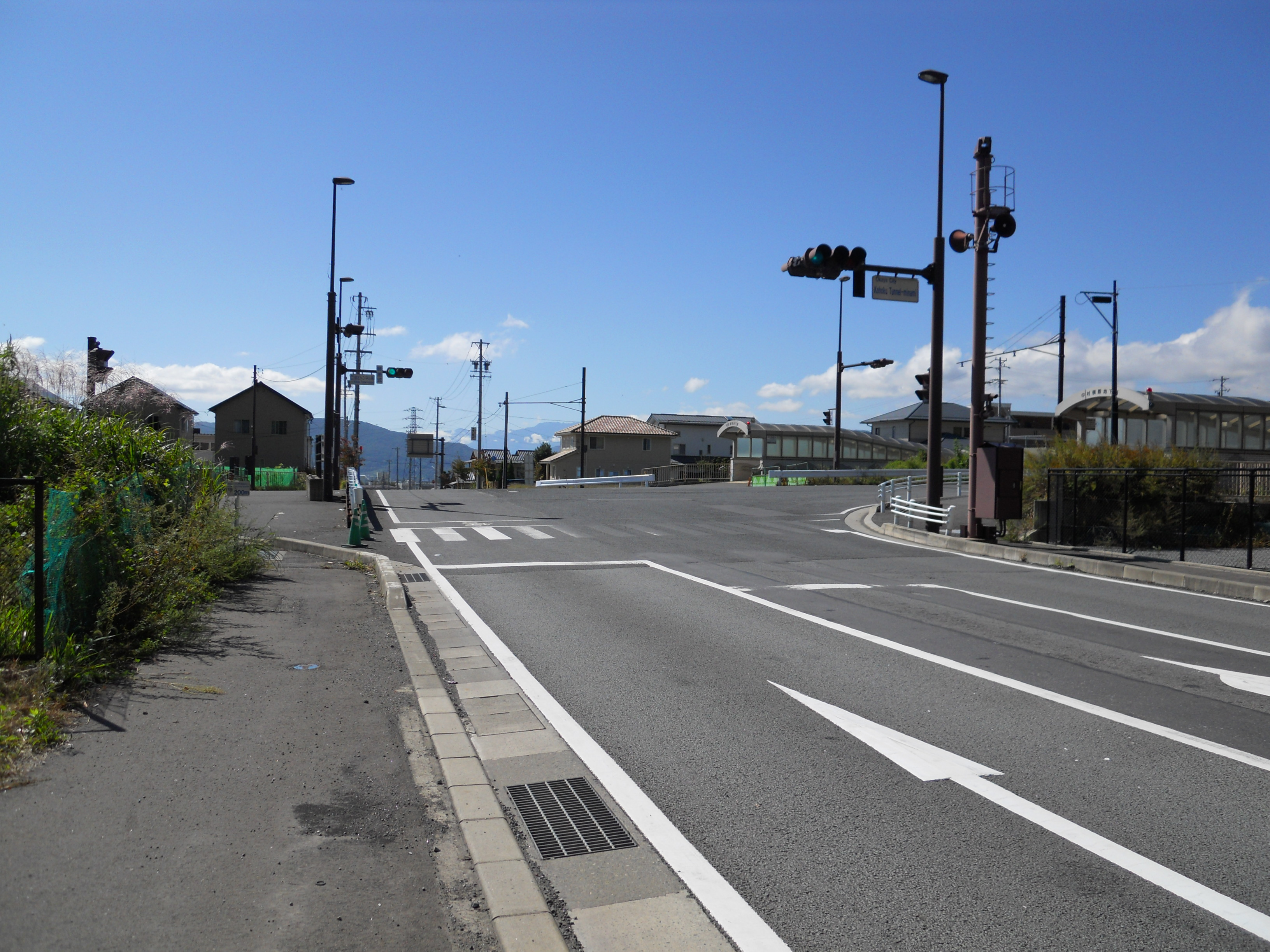 Kohoku Tunnel Kita Intersection